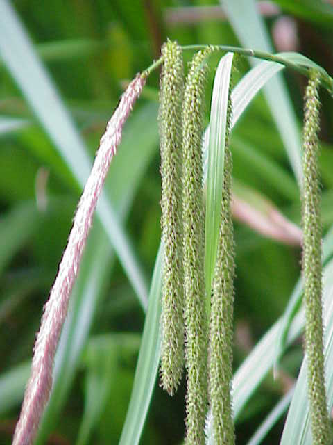 Species: Carex pendula Family: Cyperaceae Image No. 1